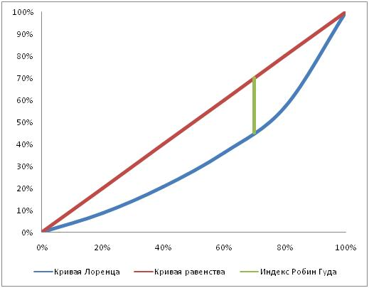 Lorenz curve and Robin Hood index